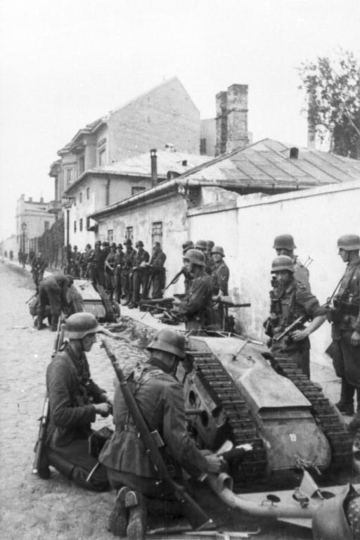 Warsaw Uprising: German units on Piaskowa Street, prepare "Goliaths" for attack - view from Powązkowska street.